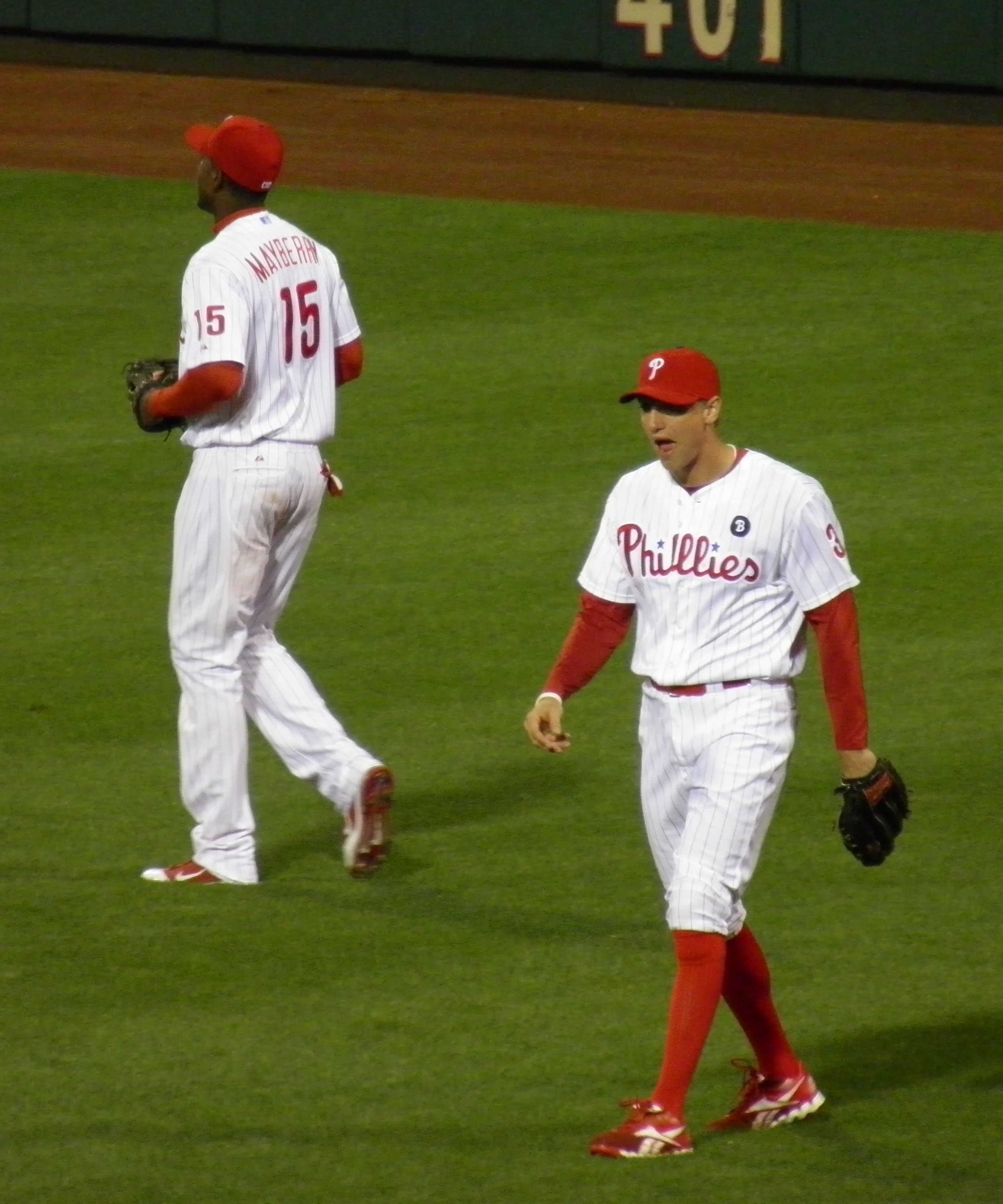 Hunter Pence (right) and John Mayberry, Jr.